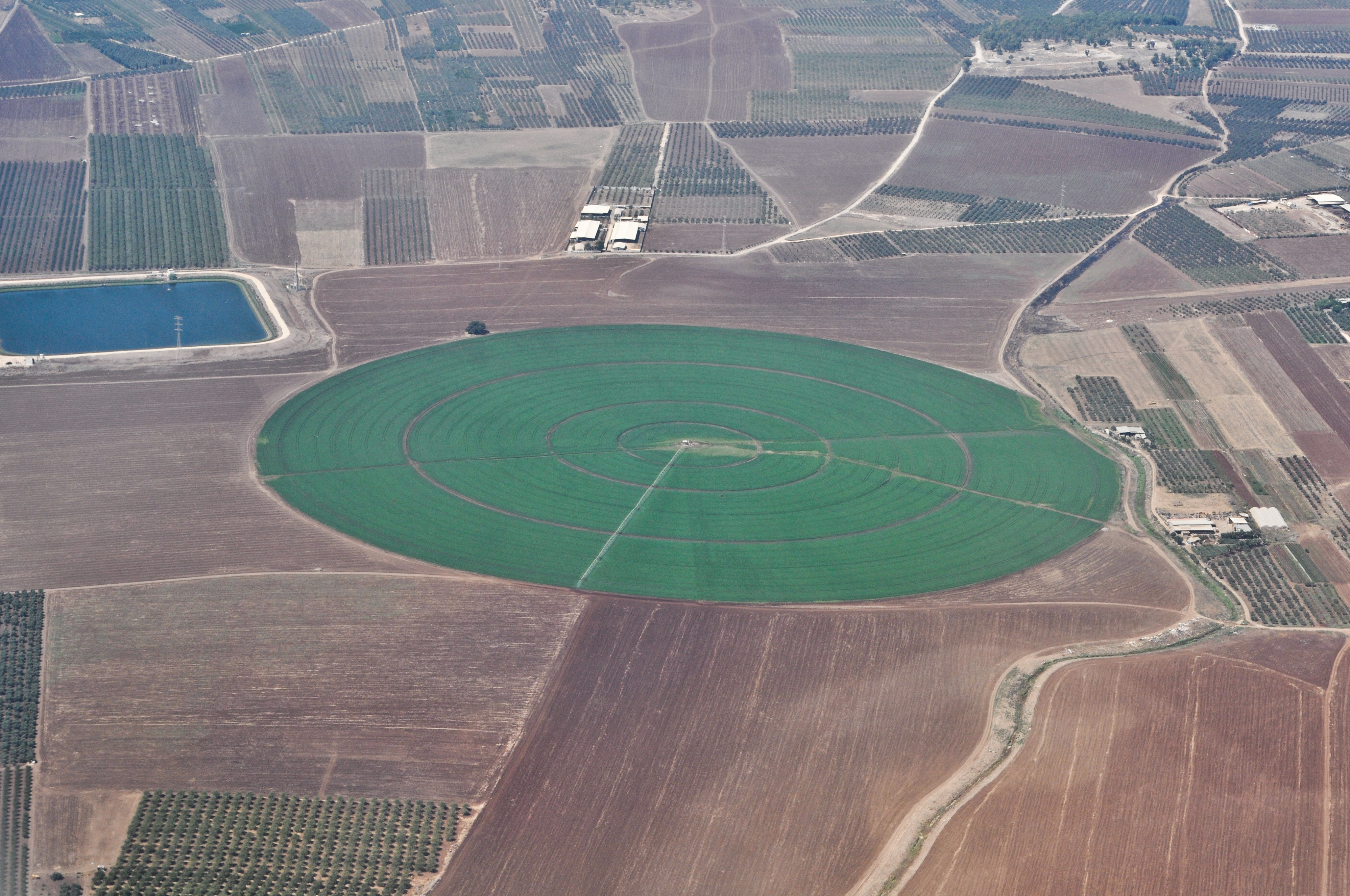 Center pivot irrigation in Israel